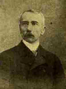 Portrait of Sándor Sajó